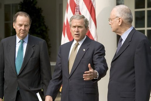 Accompanied by Chairman Thomas Kean, left, and Vice Chairman Lee Hamilton of the 911 Commission, President George W. Bush addresses the press during the presentation of the Commission's report in the Rose Garden Thursday, July 22, 2004.